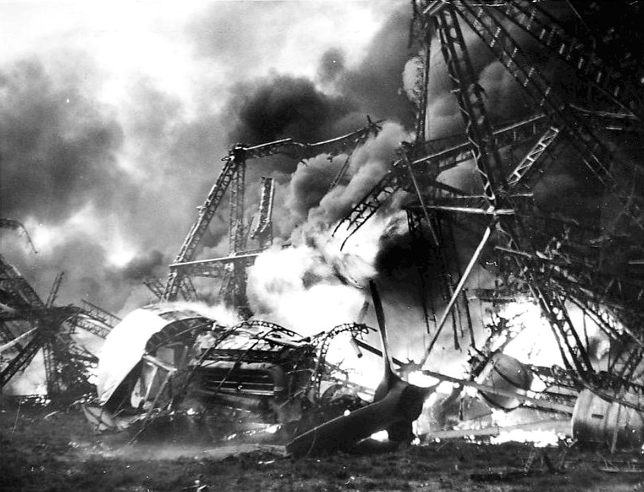 Close up photo of the burning wreckage of the Hindenburg. This photo was taken minutes after the airship began to burn and crashed.